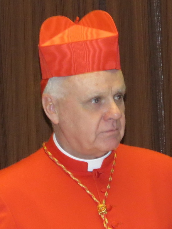 Cardinal Edwin Frederick O'Brien greets guests in the Apostolic Palace